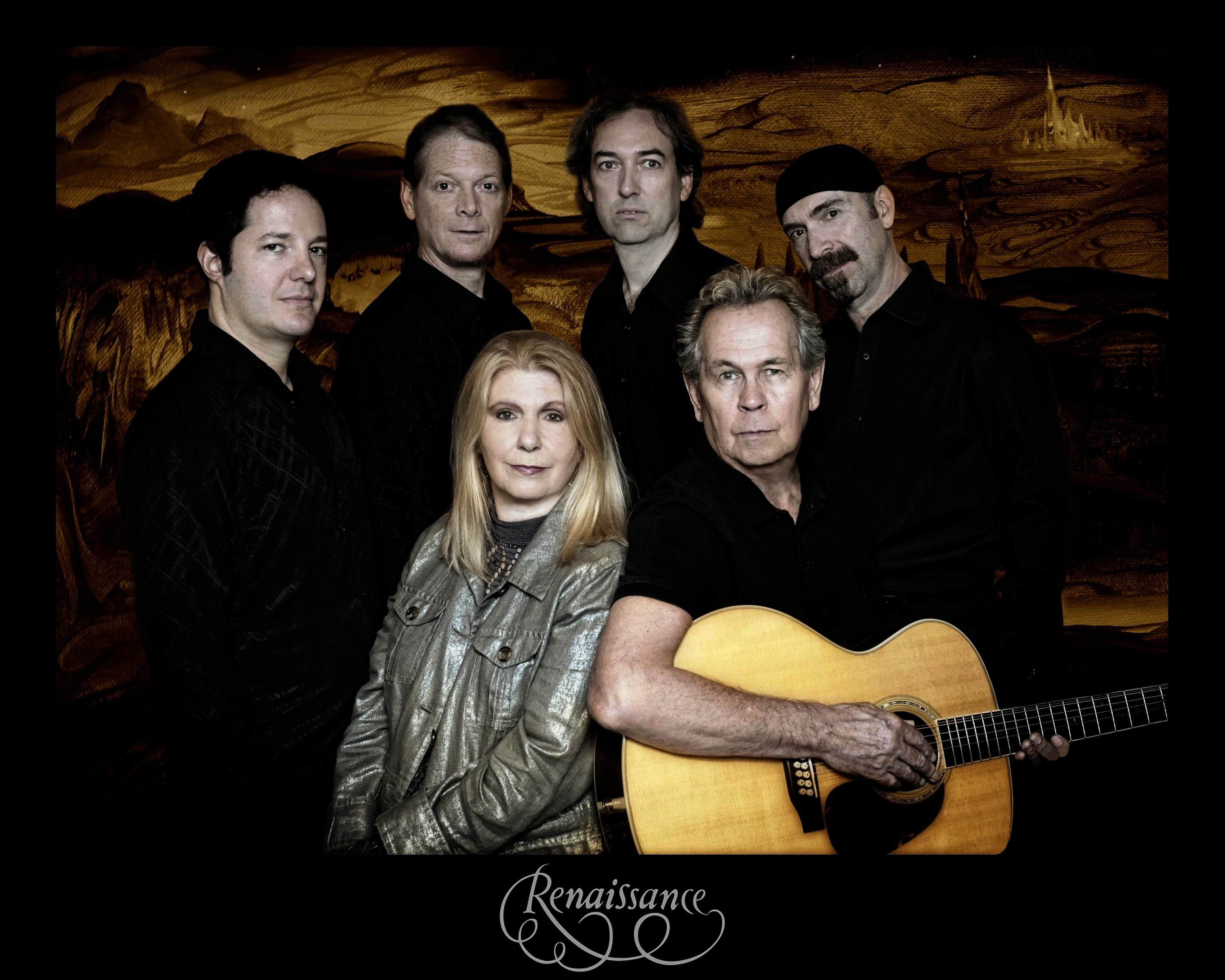 Publicity photo of progressive rock band Renaissance (2012)